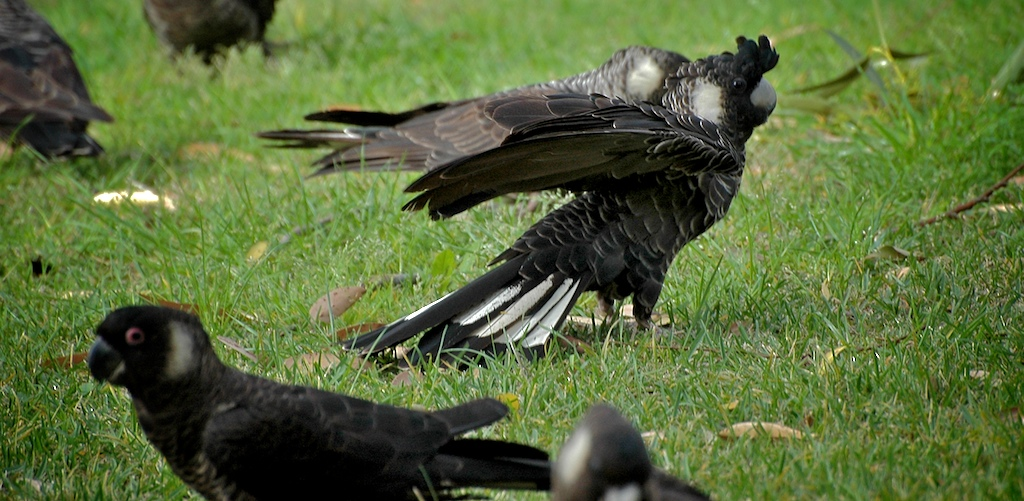 Short-billed Black Cockatoos, Kings Park, 2009.